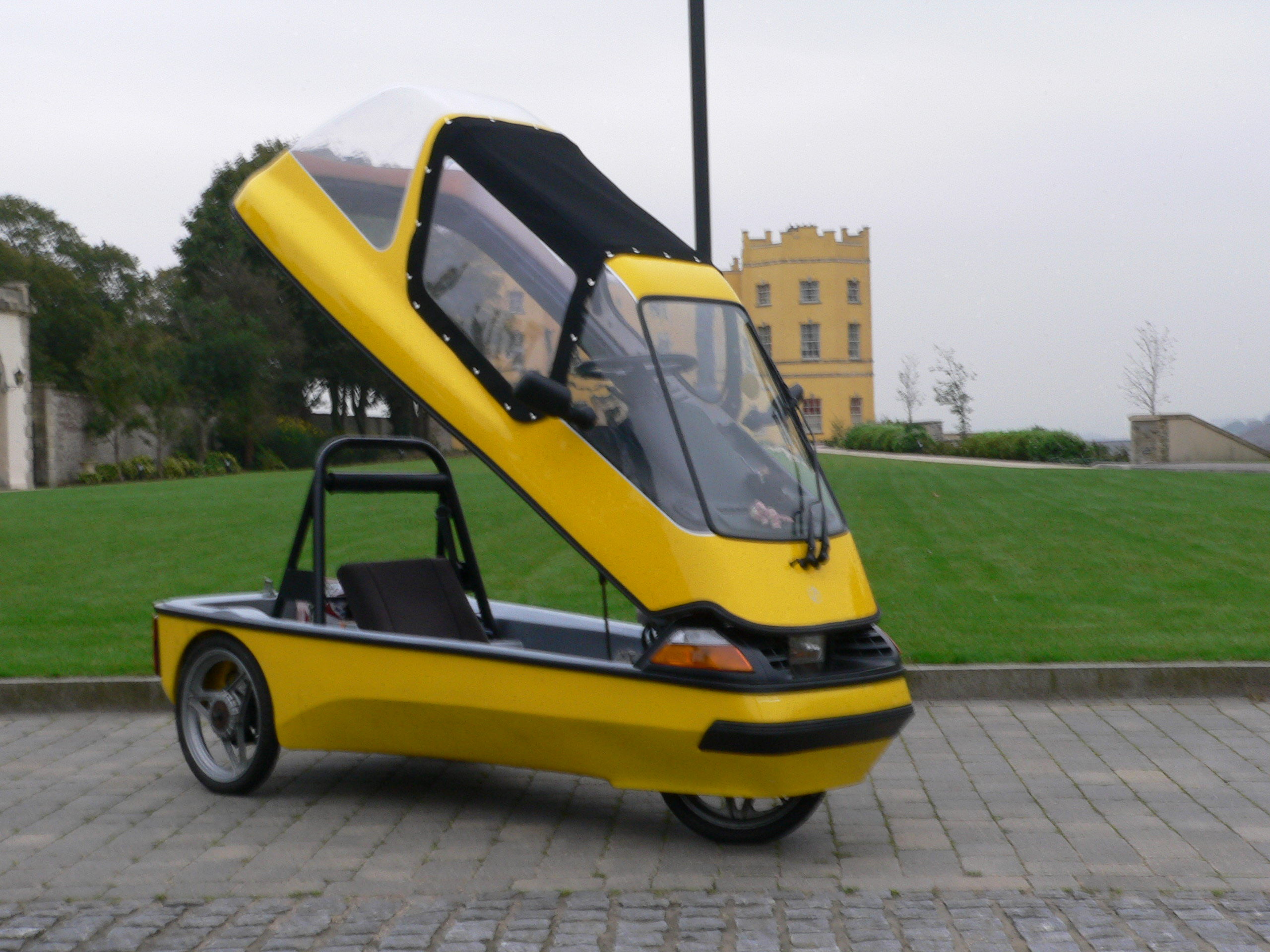 I am the owner of this photograph. It is of my own City El, taken in 2007.